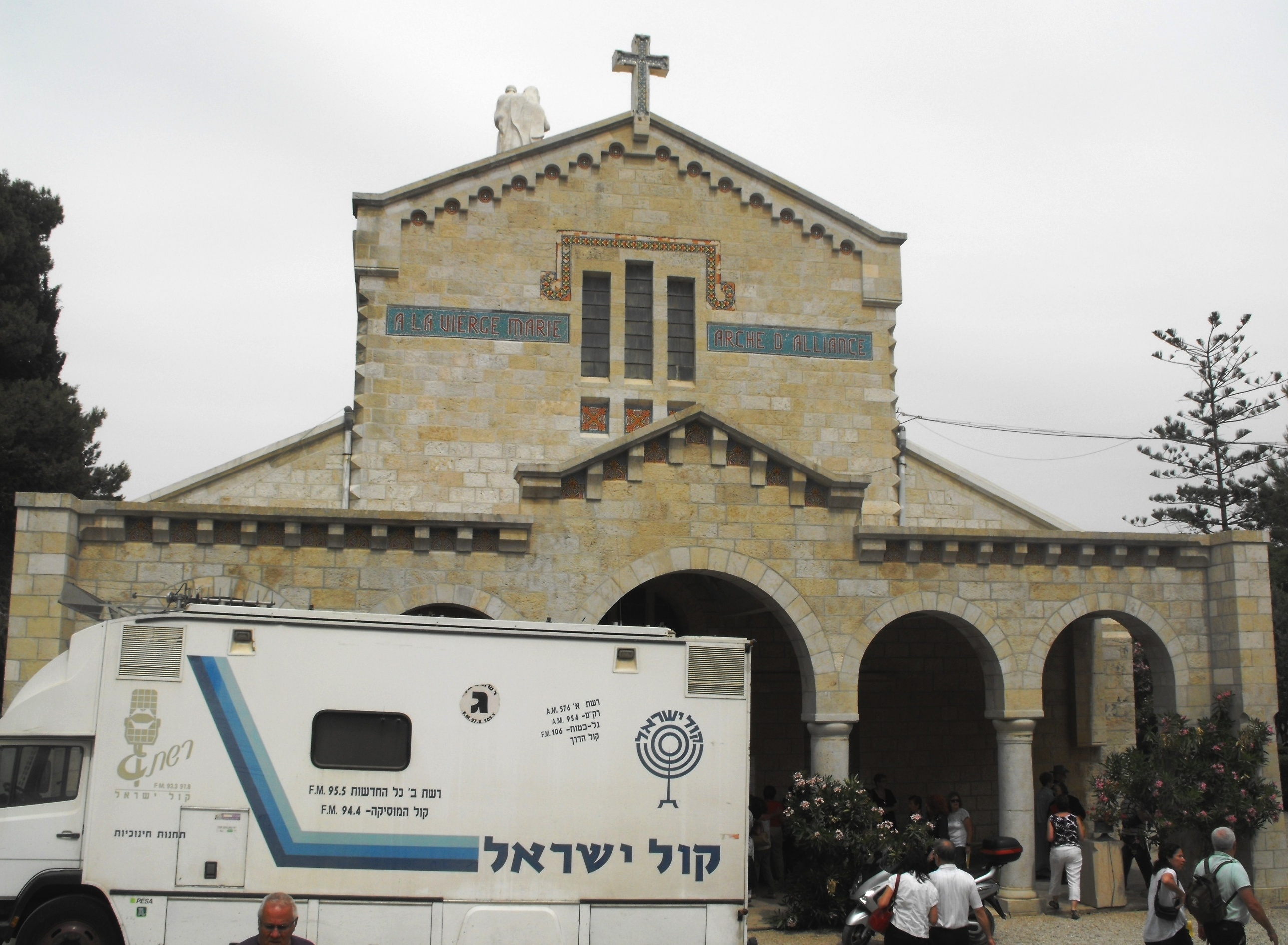 Abu-Gosh vocal music Festival, Entertainment